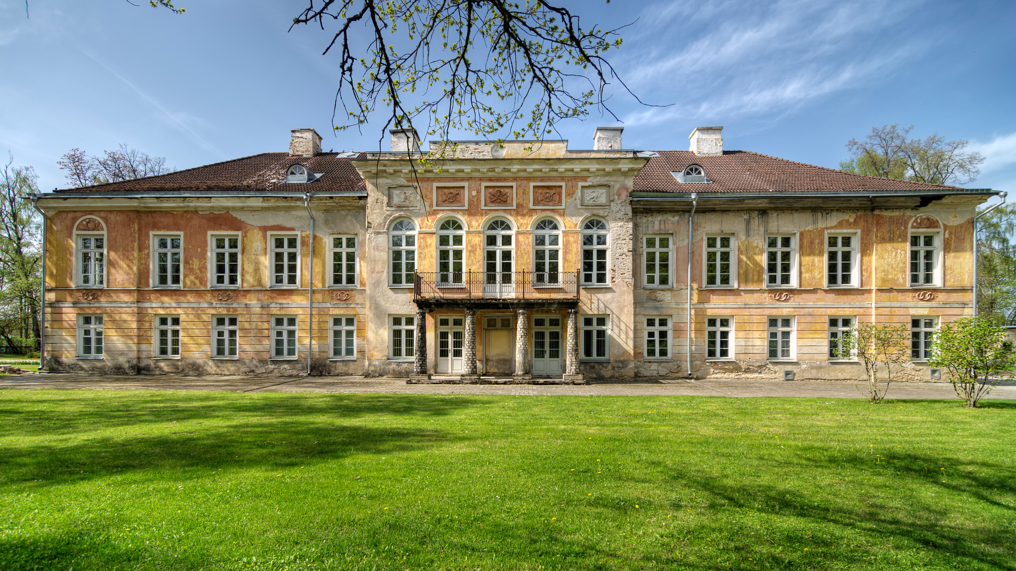 Back side of Aruküla Manor house